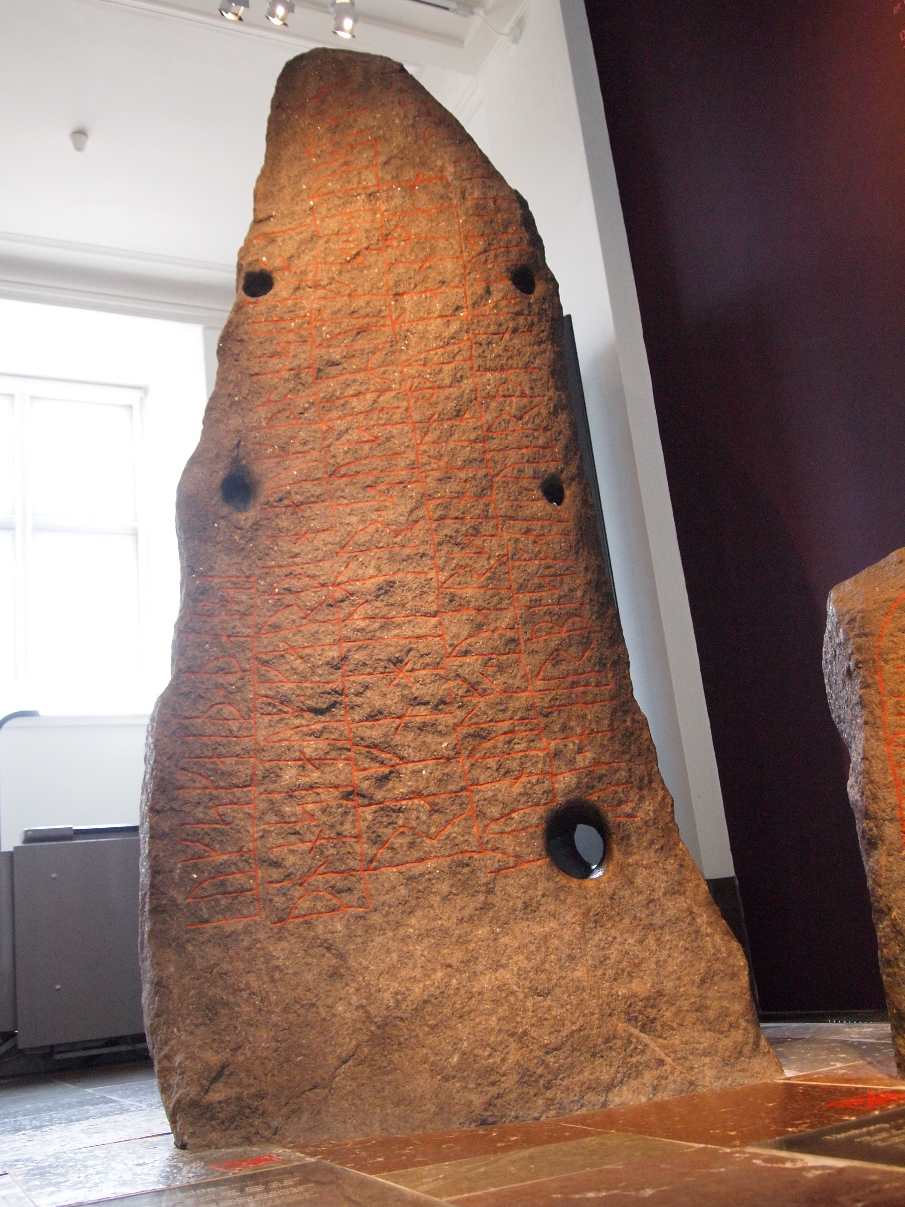 Pictures taken at the National Museet - The National Museum - Copenhagen Denmark during the Wikipedia Loves Nationalmuseet